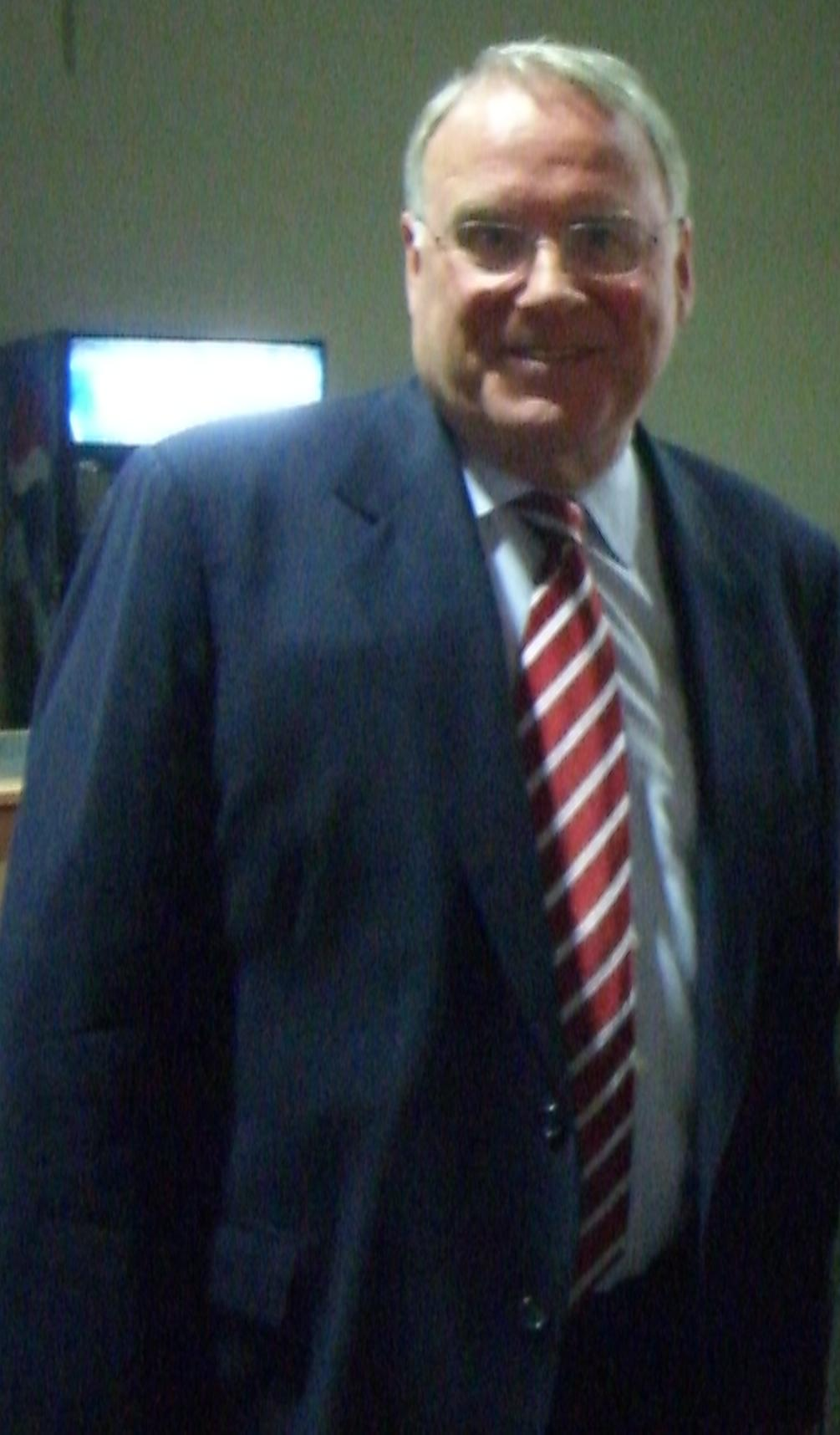 Ken Dryden